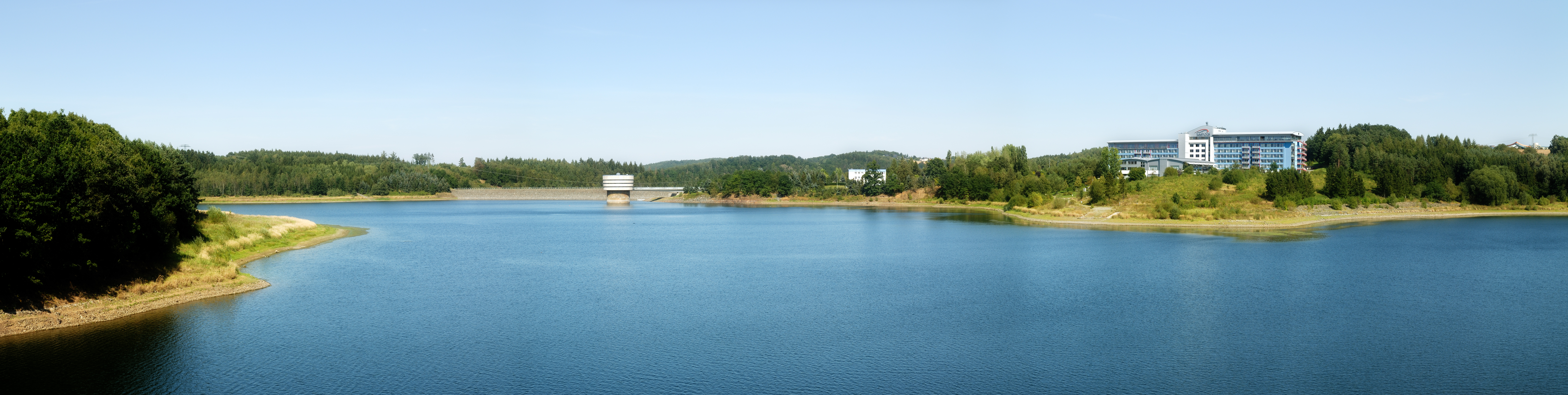 This image shows the dam in Zeulenroda ("Talsperre Zeulenroda), Germany. It is a three segment panoramic image.